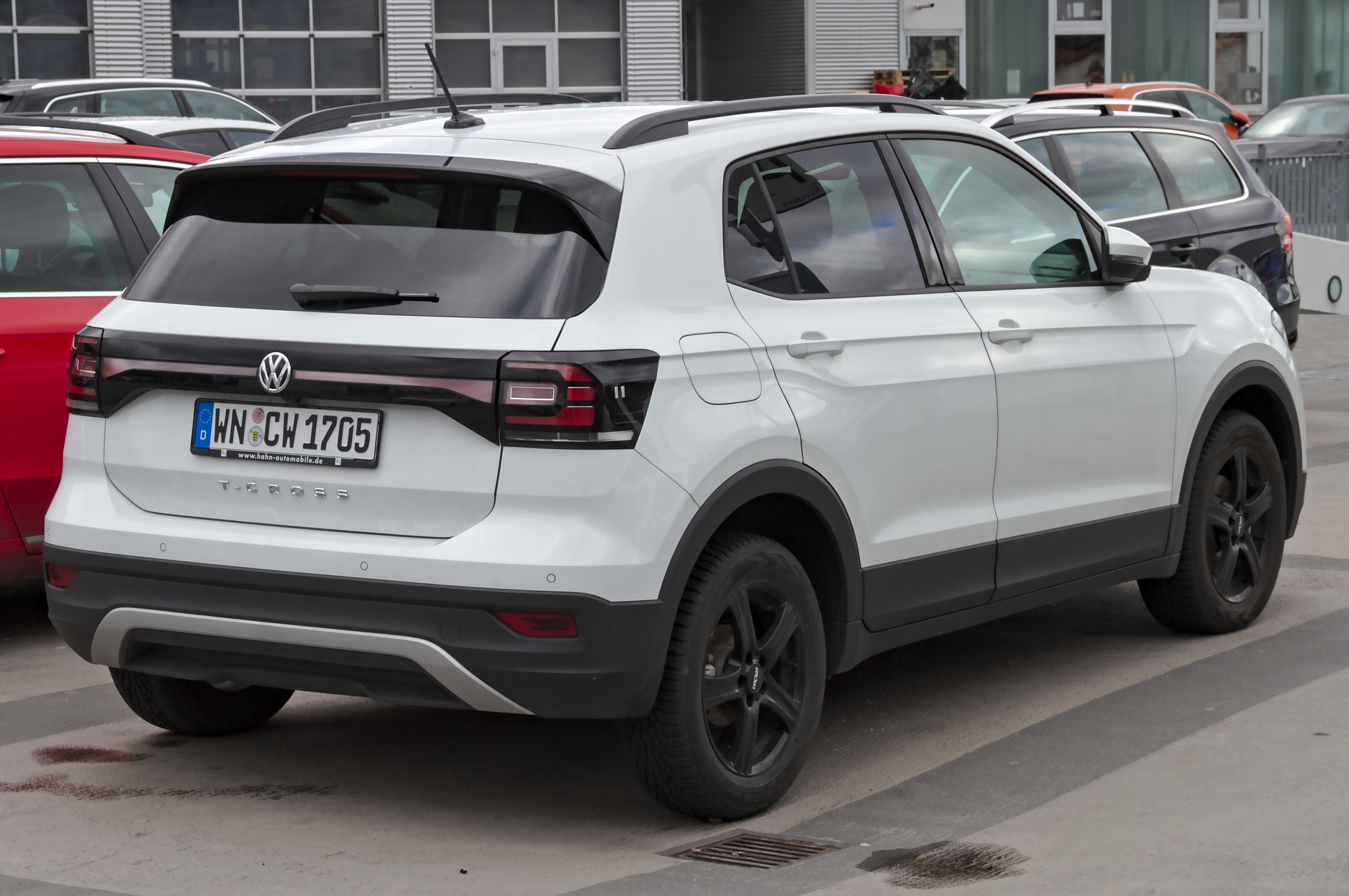 Volkswagen_T-Cross in Stuttgart-Vaihingen